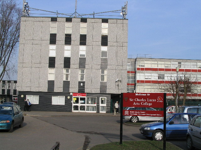 Sir Charles Lucas Arts College